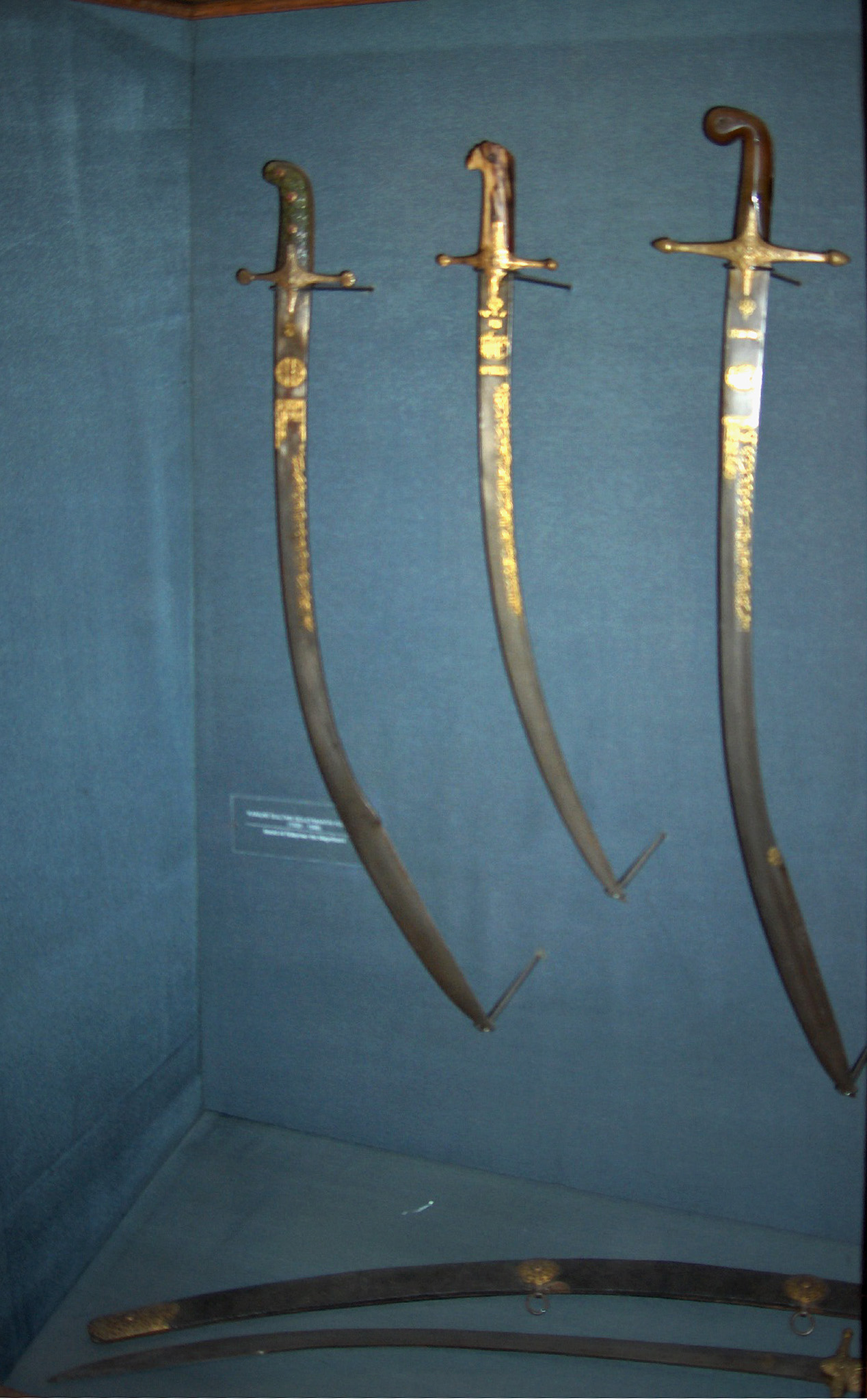 Swords of different Ottoman sultans; Topkapı Palace, Istanbul, Turkey